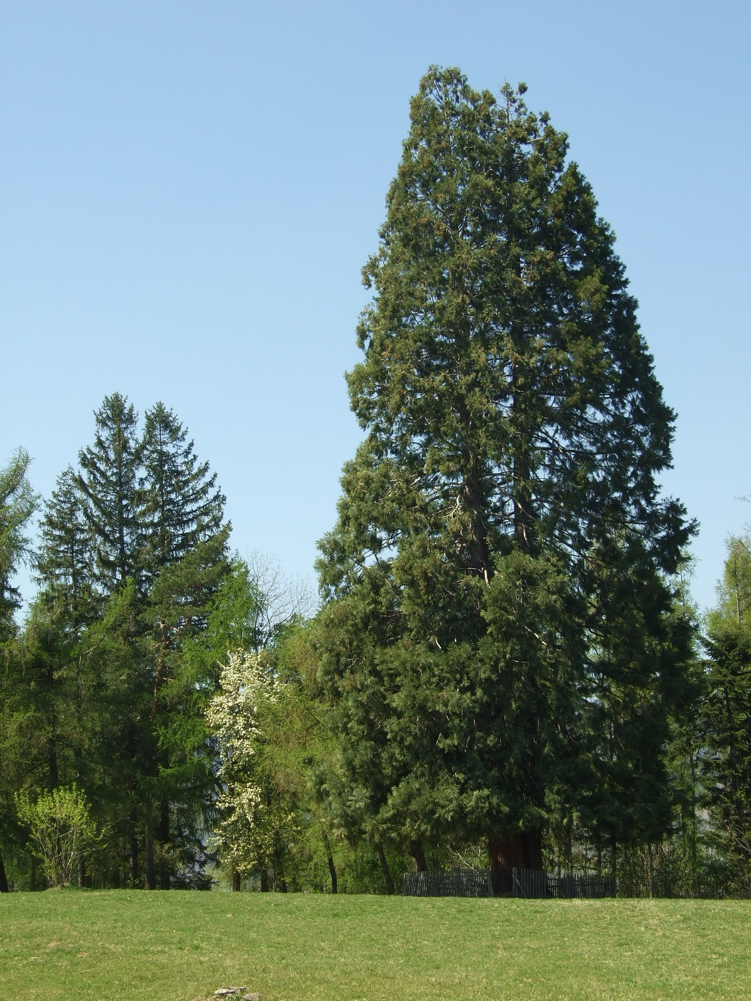 The sequoia tree in Săcuieu, Romania